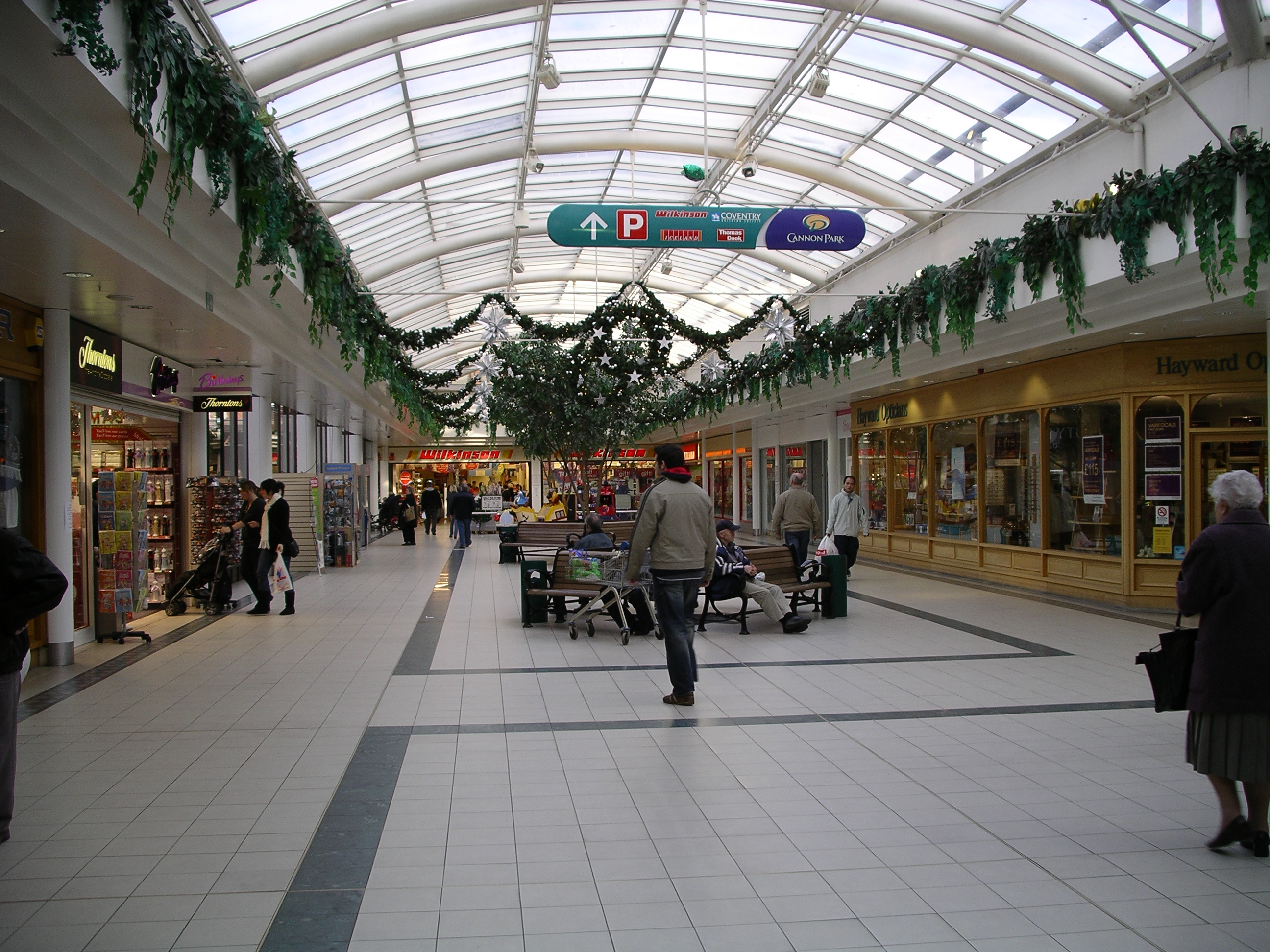 Cannon Park shopping centre, Coventry, England. Shows the shops under the roof.